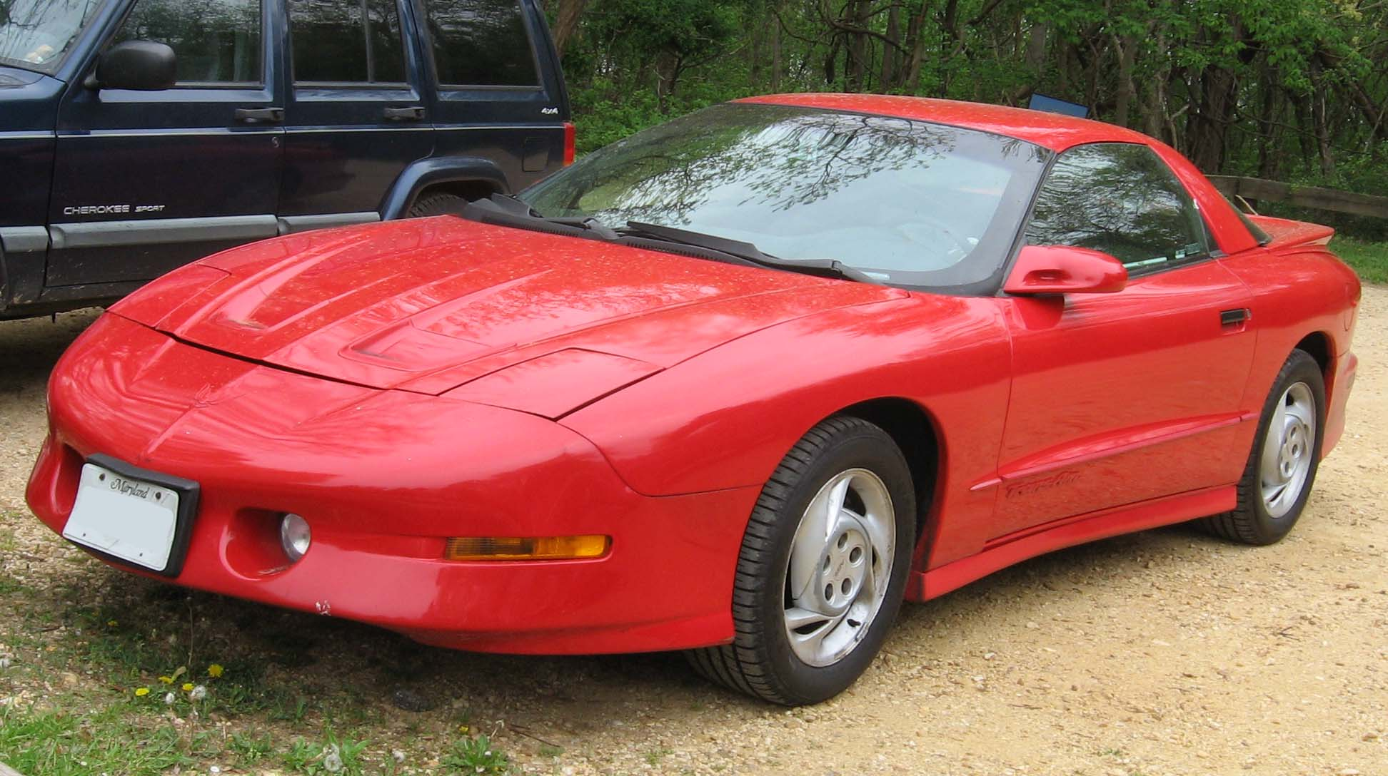 1993-1997 Pontiac Firebird photographed in USA.